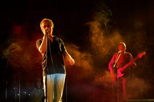 Wake Up